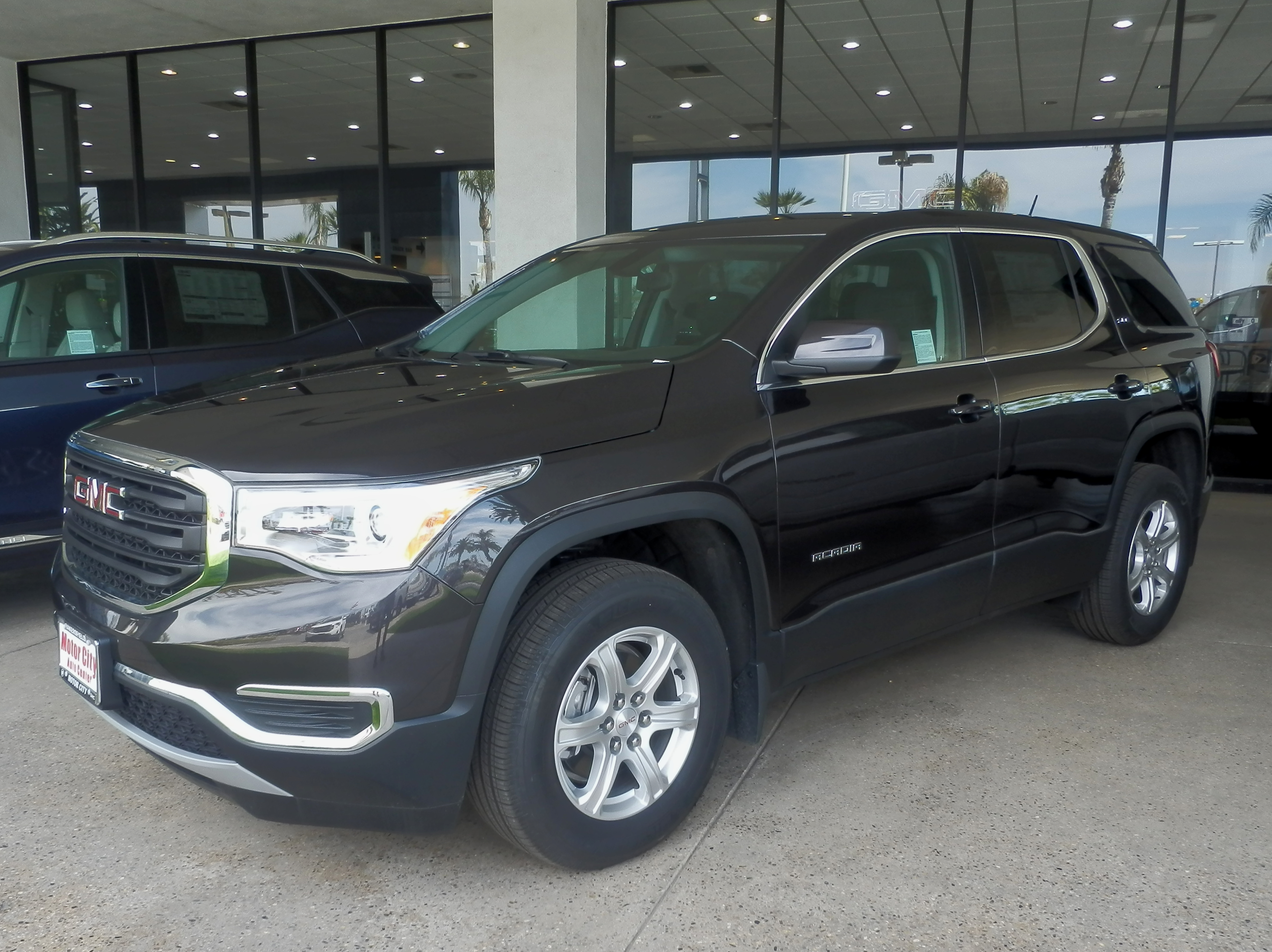 GMC Acadia in Bakersfield